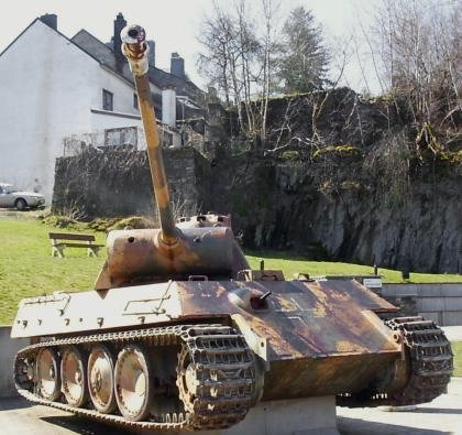 Panther in Houffalize, Belgium.